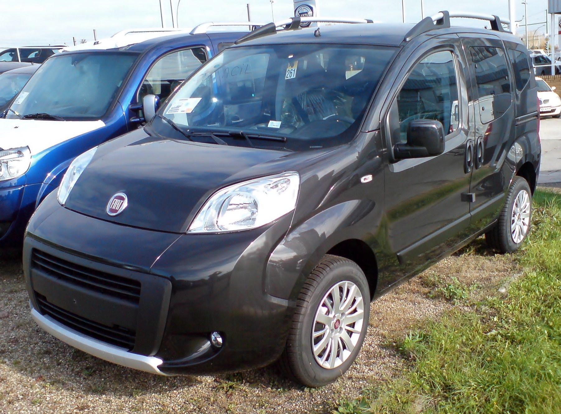 Fiat Fiorino Qubo Trecking